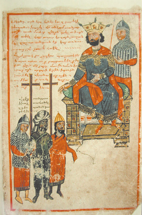 Alexander romance. Armenian illuminated manuscript of XIV century (Venice, San Lazzaro, 424)